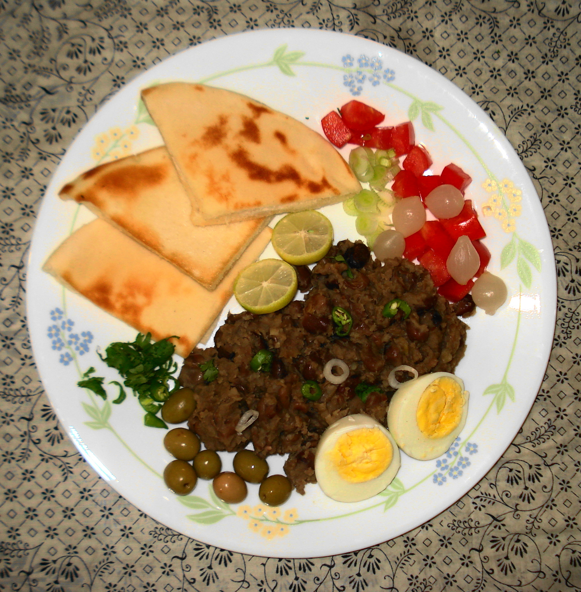 Ful Medames